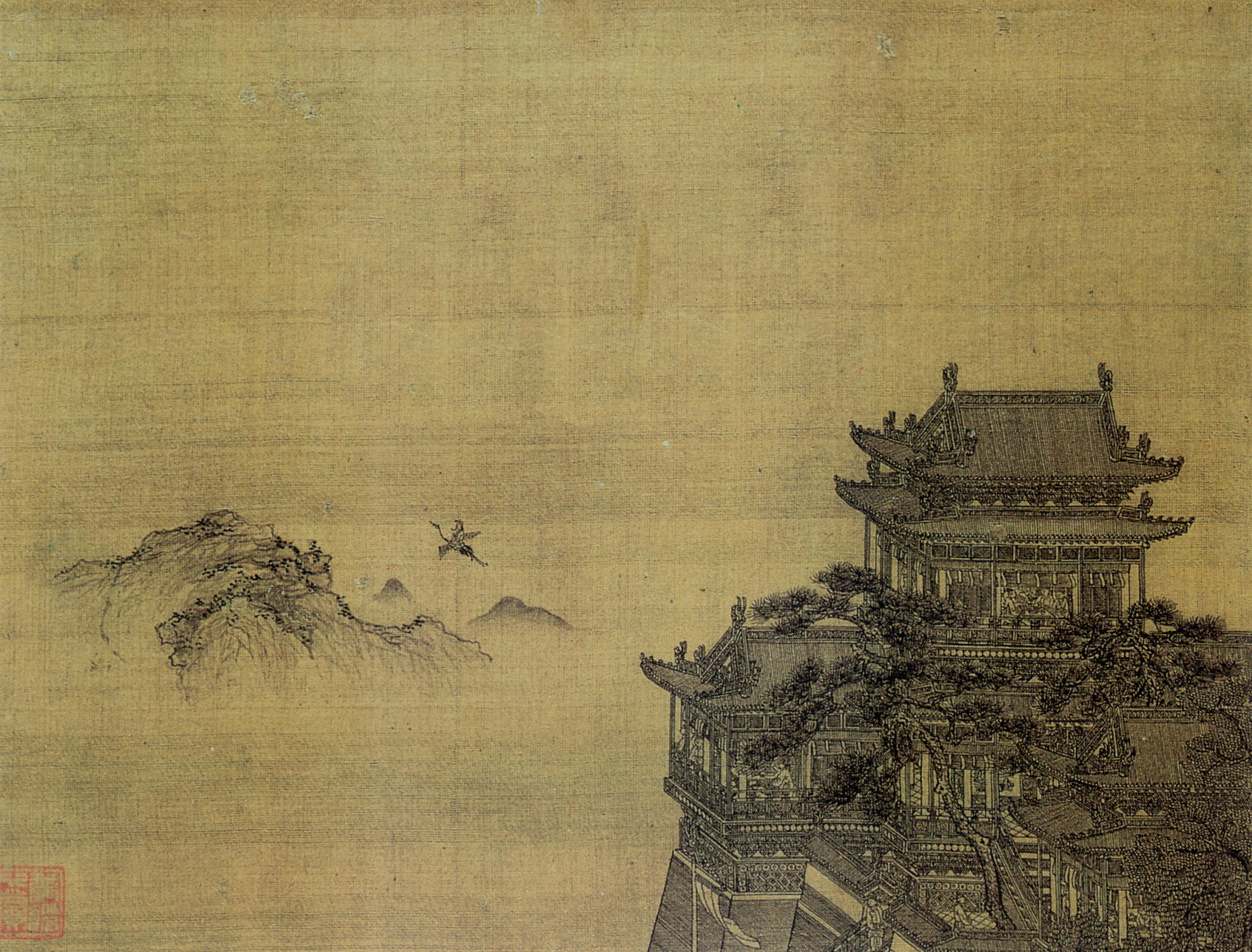 Huanghe Lou (黄鹤楼) painted by Xia Yong (夏永) sometime during the Yuan Dynasty (1271 to 1368). Length 27.3 cm, Width 27.6 cm. Located in the Yunnan Provincial Museum.